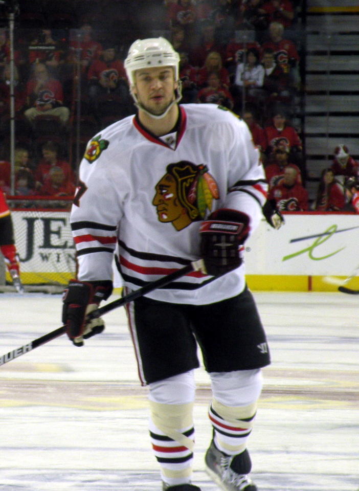 Chicago Blackhawks defenceman Brent Seabrook during warm up prior to a National Hockey League playoff game against the Calgary Flames, in Calgary.